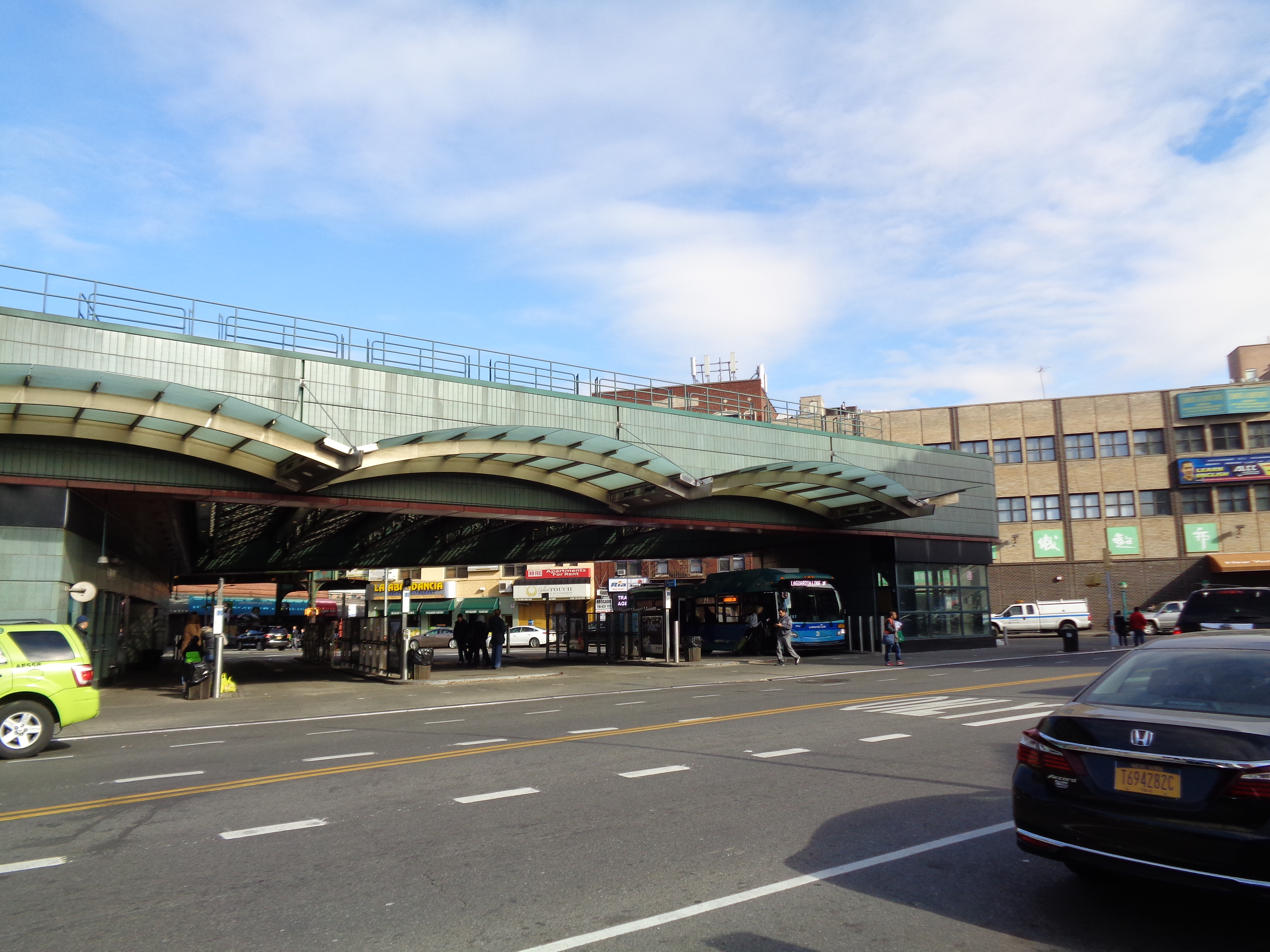 Looking from across Broadway at the Victor A. Moore Bus Terminal of the Jackson Heights – Roosevelt Avenue / 74th Street subway station, in Jackson Heights, Queens. A Q70 SBS bus is picking up passengers in the easternmost (right) bay.